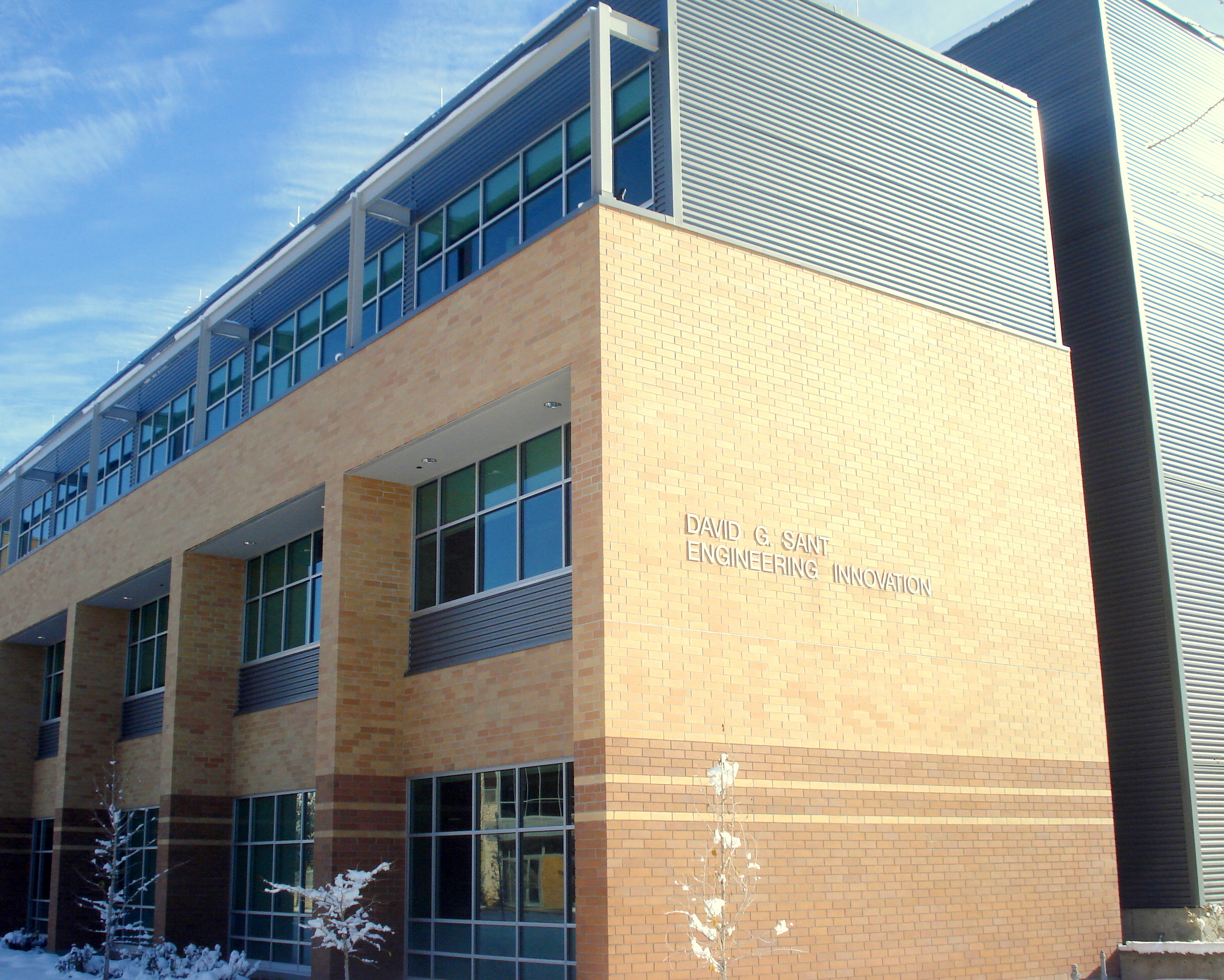 The David G. Sant Engineering Innovation building at Utah State University